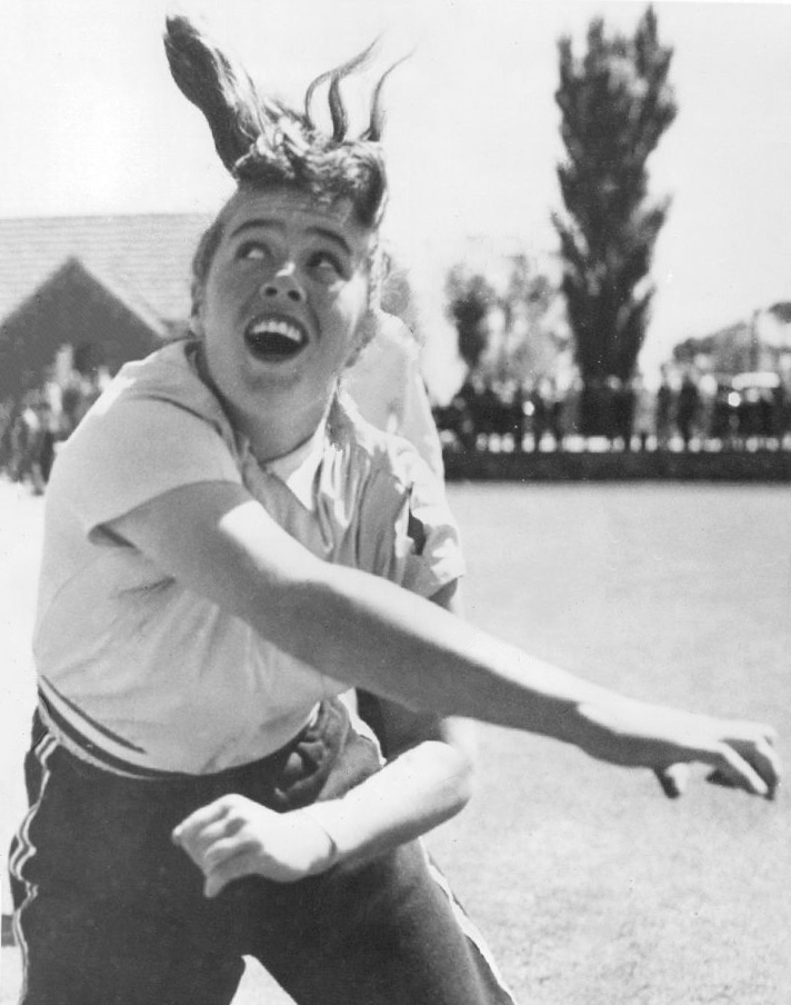 1956 Pamela Kurrell Discus Throw at Olympic Village Press Photo